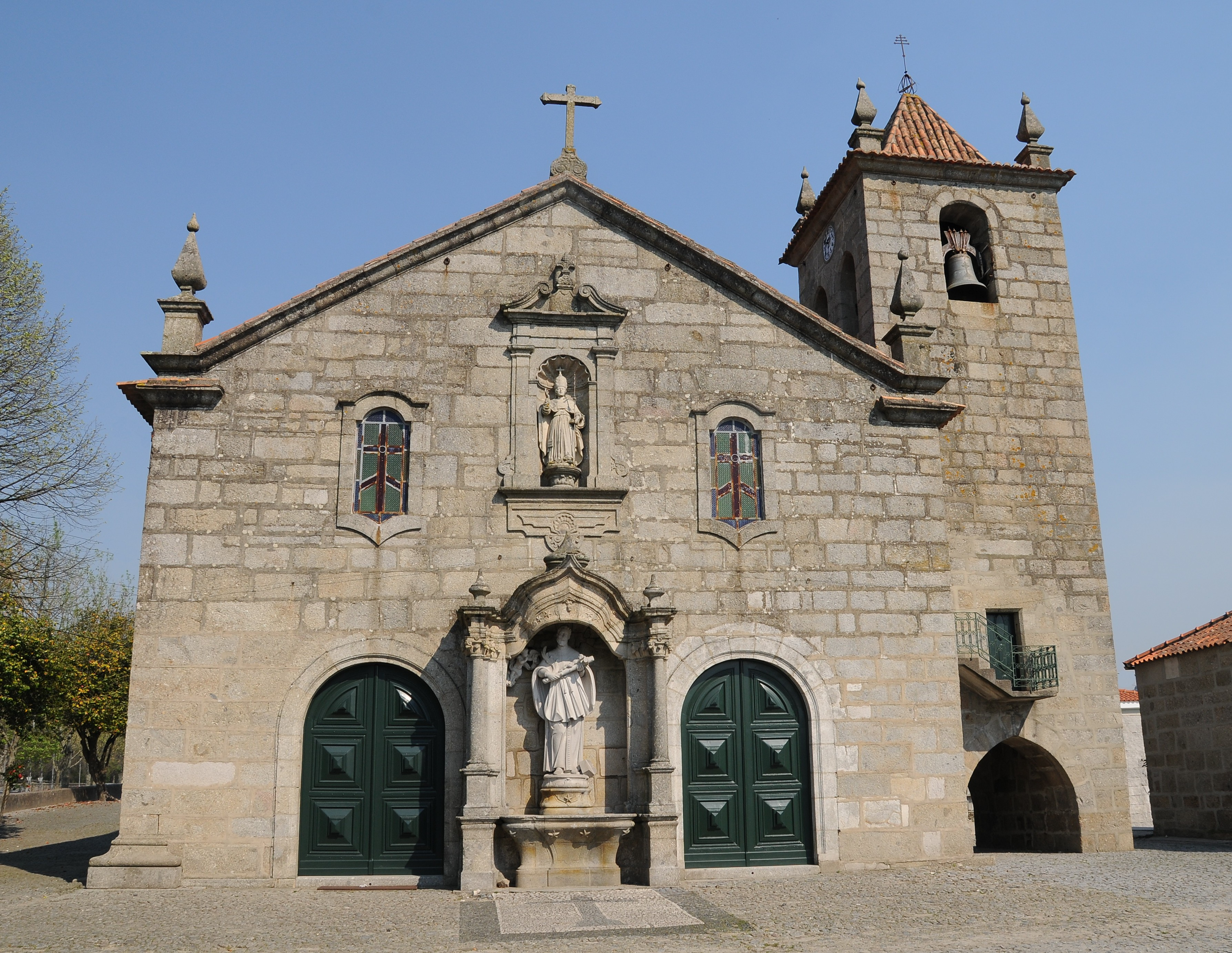 Requiao Church, in Vila Nova de Famalicao, Portugal